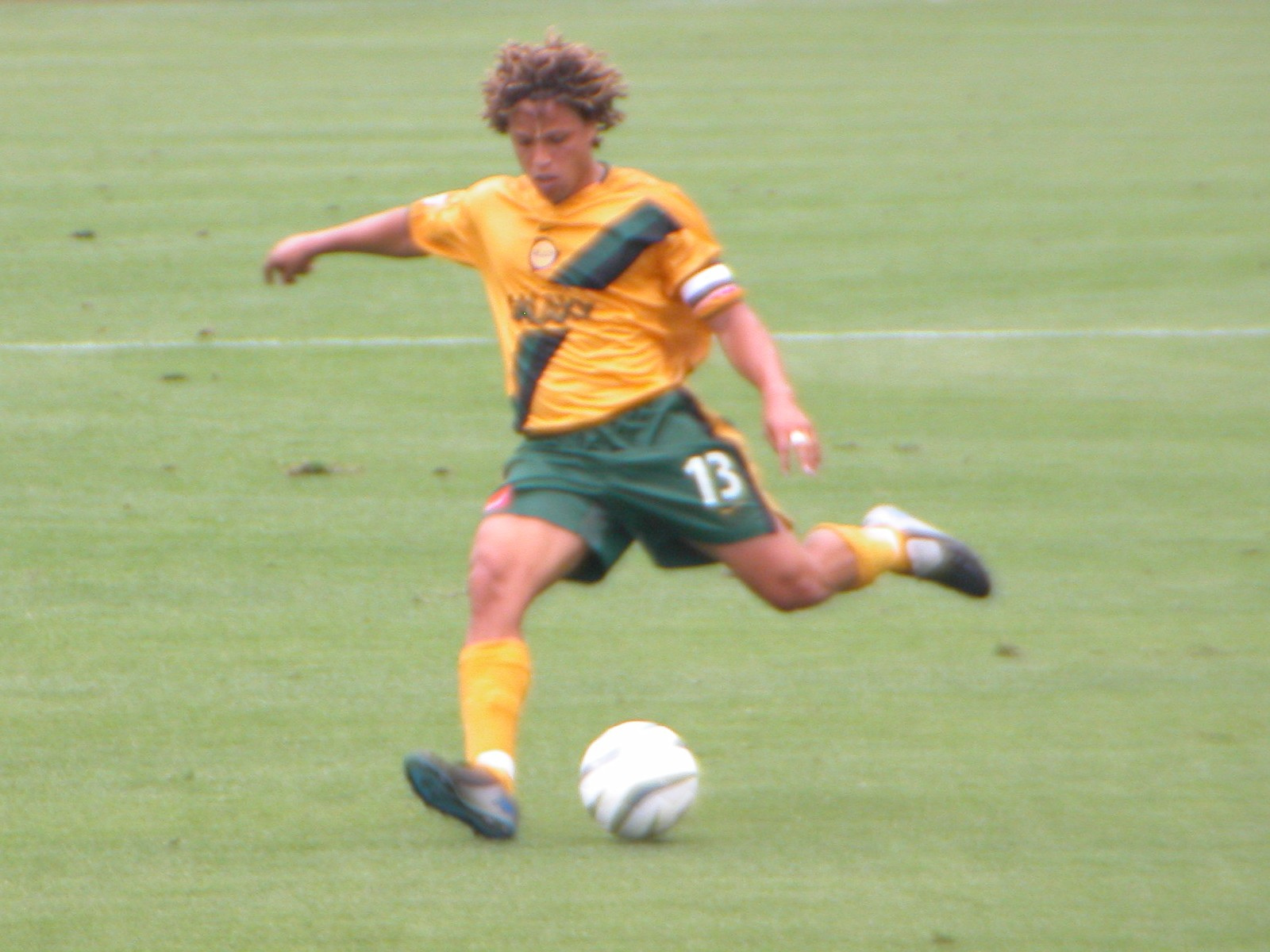 Cobi Jones at the Home Depot Center June 2003 (Inaugeral Home Depot Center game)